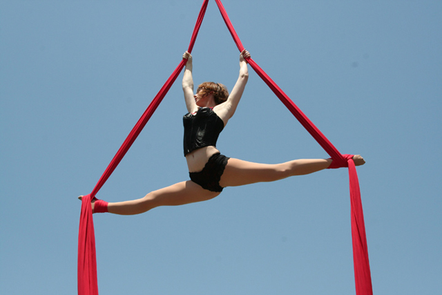 Description of Aerial Circus apparatus. Aerial tissu, static trapeze, Spanish web, aerial hammock and aerial hoop Photos, Description and Video of Aerial apparatus Aerial tissu (also aerial tissue, aerial silk, aerial ballet in silk, aerial contortion or aerial curtain) is an acrobatic, aerial ballet which is performed while suspended from a piece of silk or other fabric ("tissu" is French for fabric). Aerial Hoop (also Lyra, Cerceaux, aerial ballet on hoop, aerial contortion) is an acrobatic, aerial ballet which is performed while suspended from a circular hoop that spins, orbits and moves up and downen:hoop ("cerceaux" is French for circle). Aerial Hammock (also aerial tissue, aerial silk, aerial ballet in silk, aerial contortion or aerial curtain) is an acrobatic, aerial ballet which is performed while suspended from a piece of silk tied to form a hammock or other fabric ("tissu" is French for fabric). Static Trapeze (also single trap) is an acrobatic, aerial ballet which is performed on a bar suspended by two ropes. Spanish Web (also Rope, corde lisse) is an acrobatic, aerial ballet which is performed while suspended from a single rope.